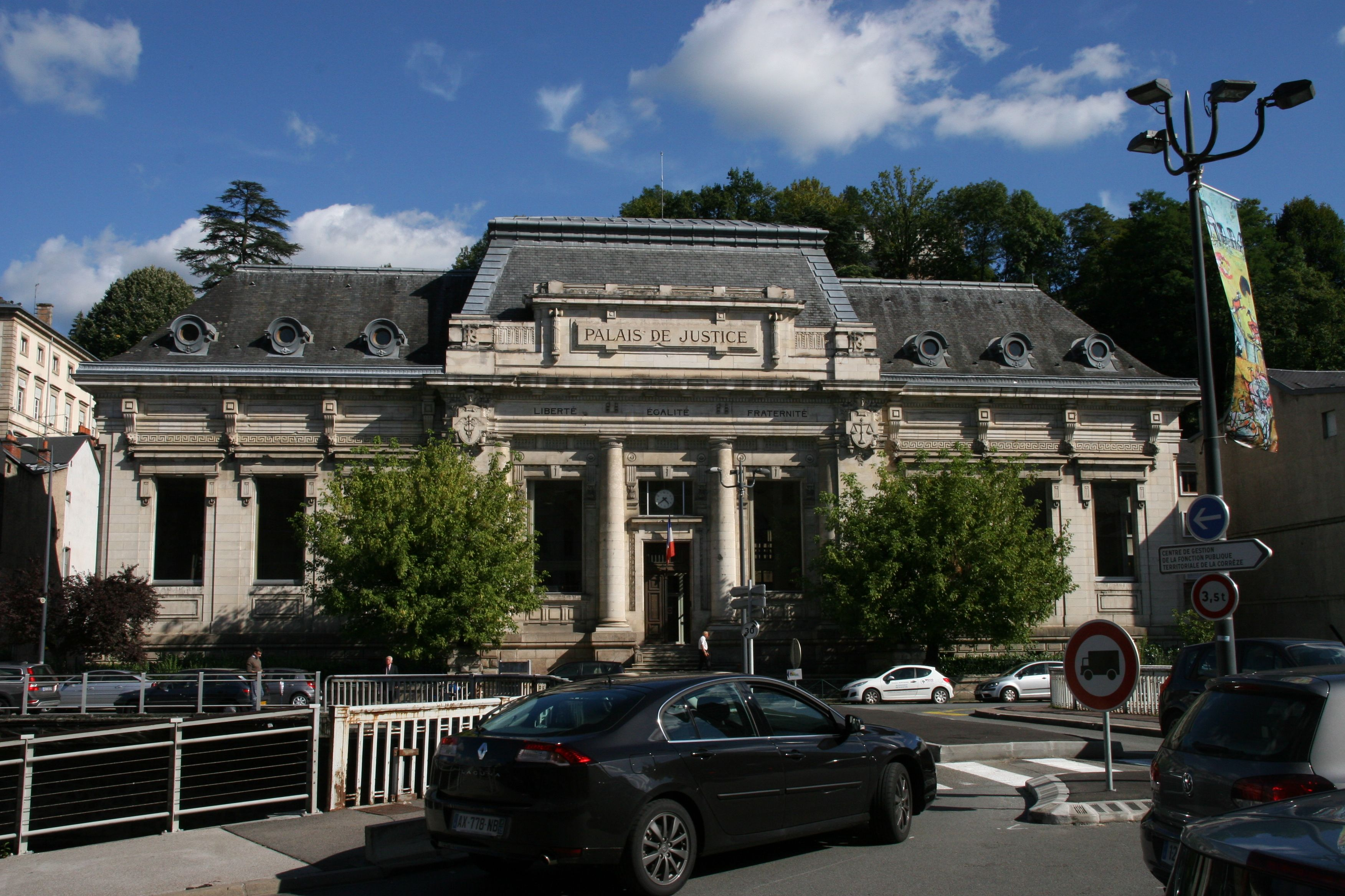 Tulle: Courthouse